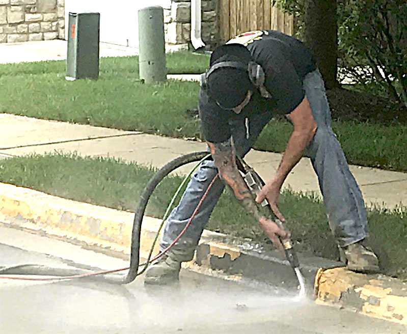 Worker performing bead blasting to remove paint from curb.